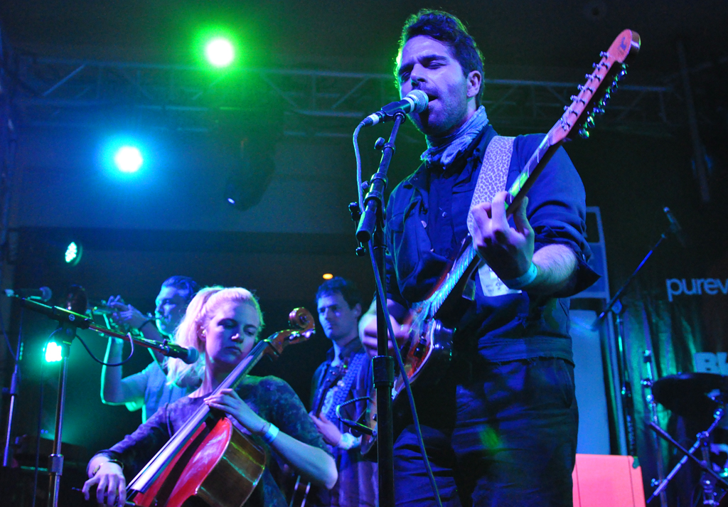 Choir of Young Believers, South by Southwest 2012, Austin, Texas